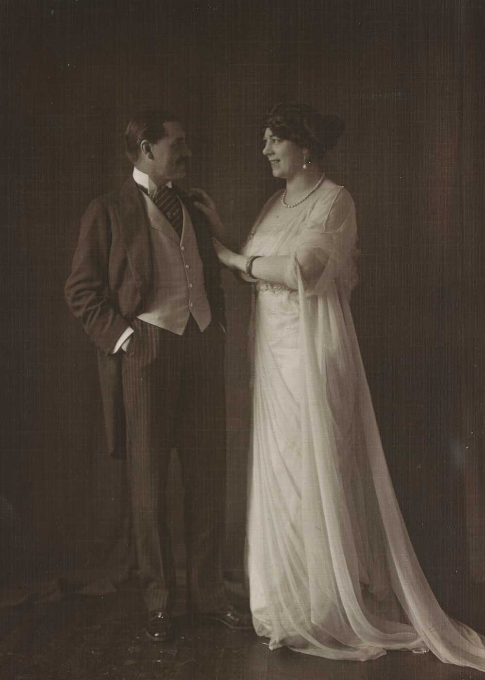 Dame Clara Butt and Robert Kennerley Rumford